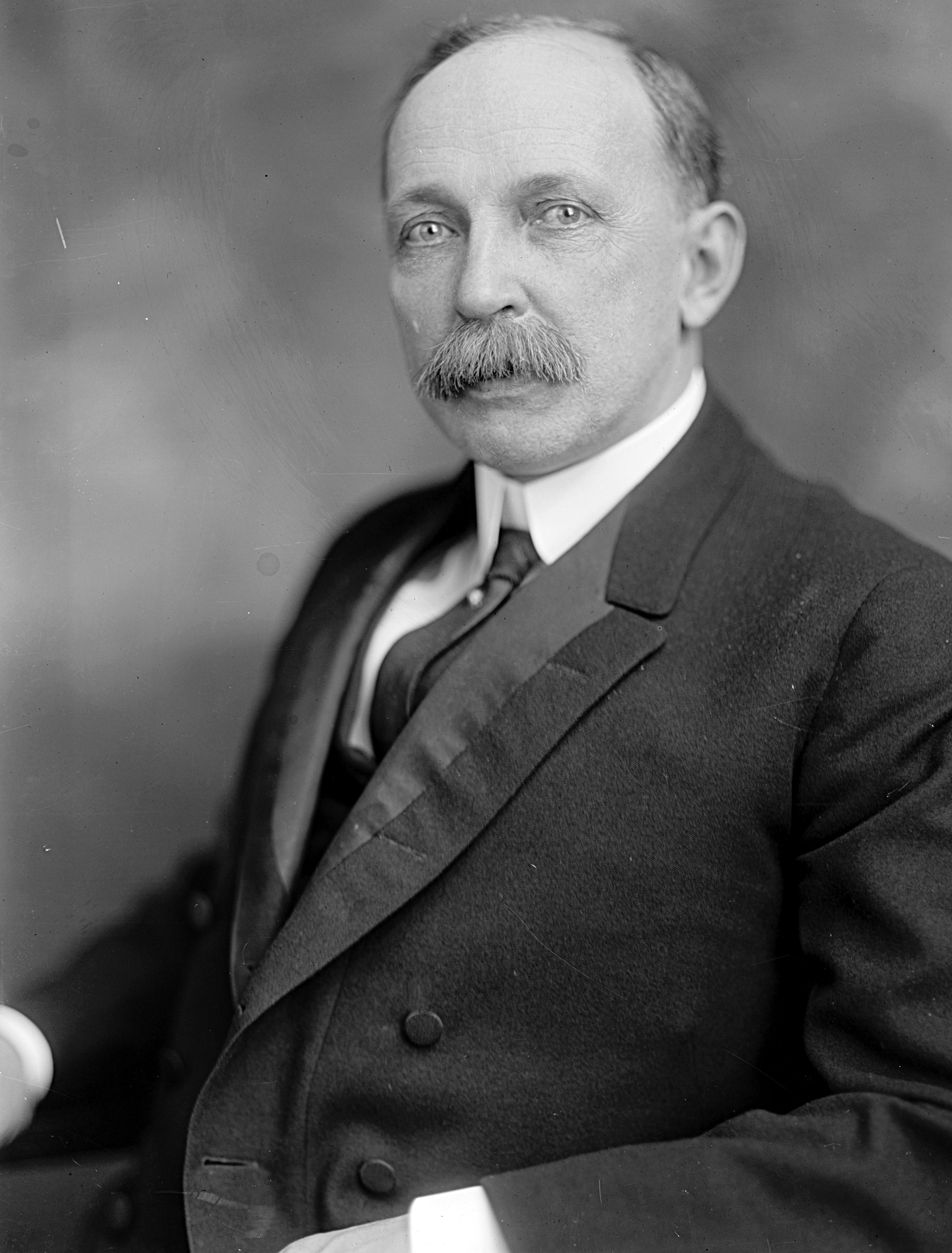 Samuel Beakes, US Representative from Michigan